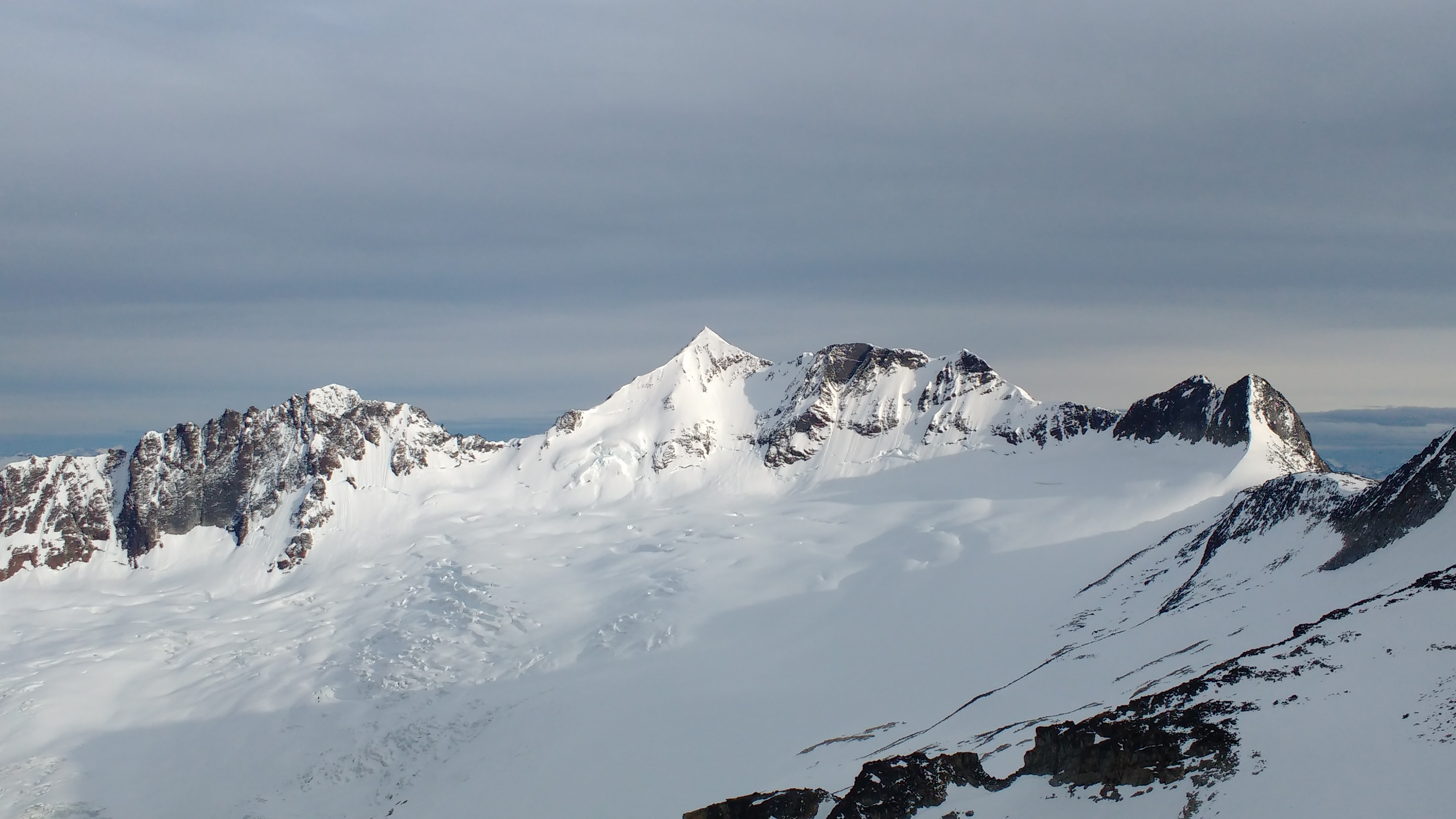 View of Mt Priestley from the North side, the East ridge (first ascent route) shown to the left of the summit.